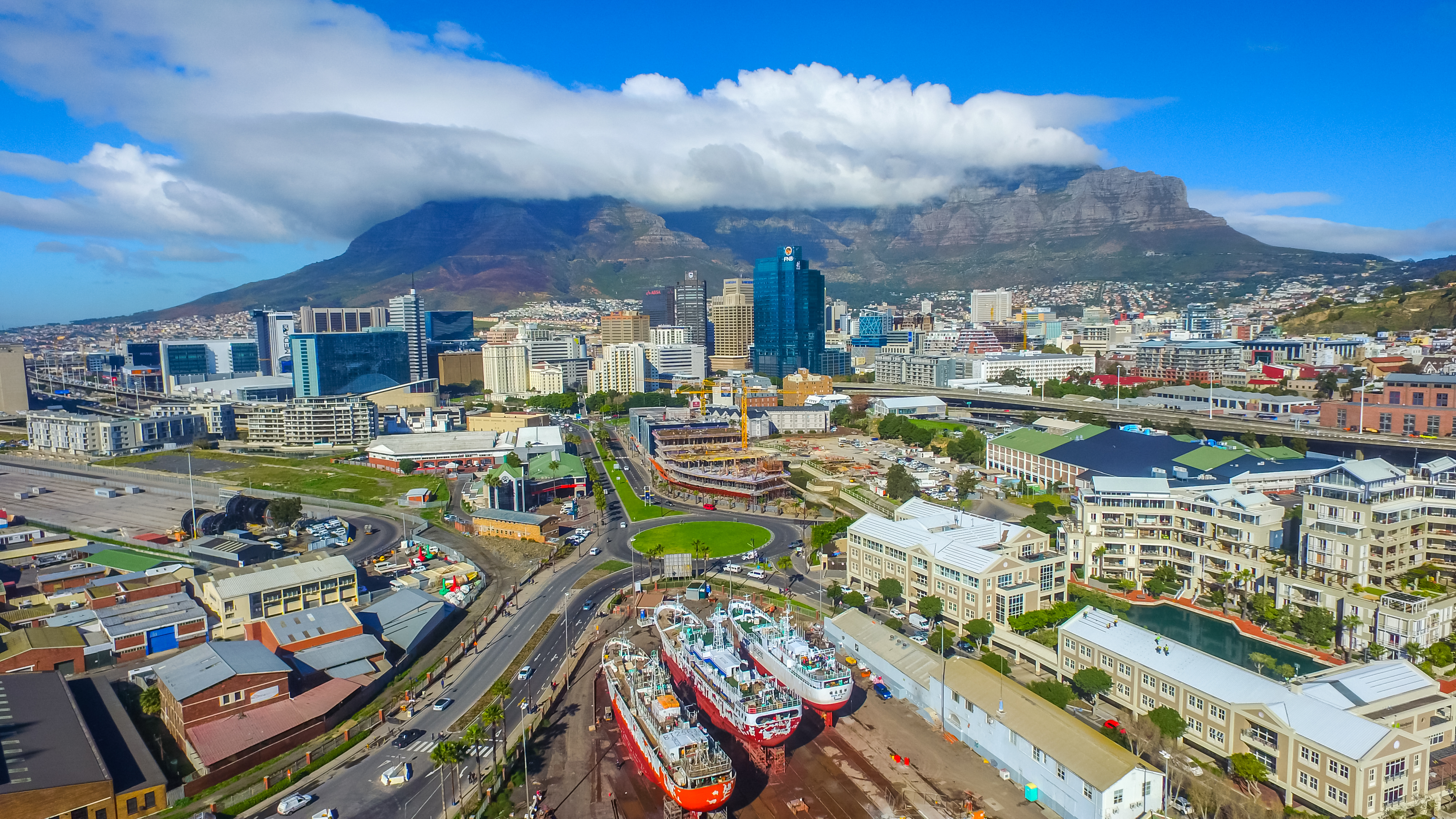 Cape Town City views from the harbour